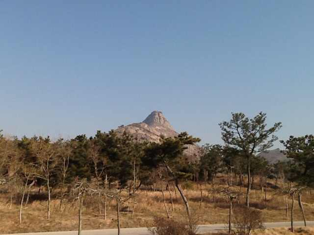 Rushan (Breast Mount)